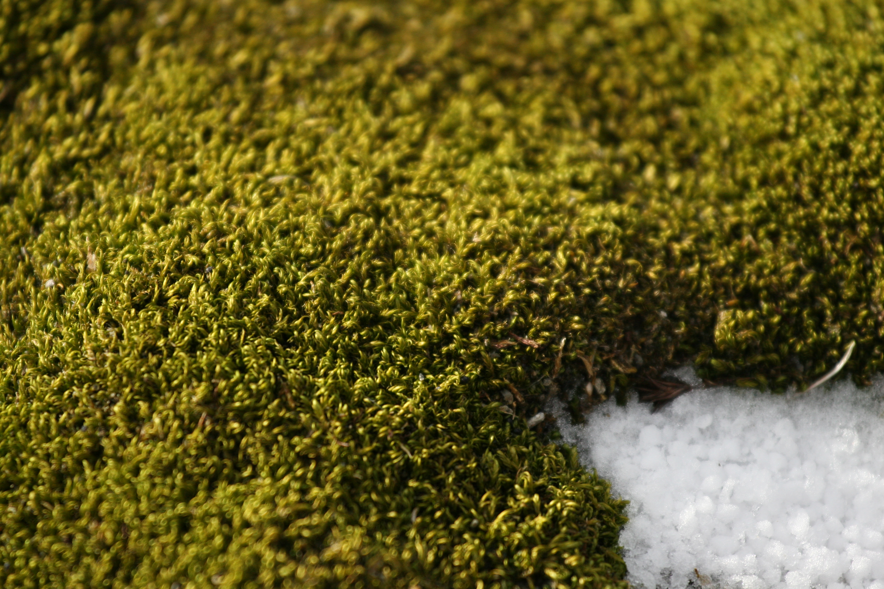 Moss on Aitcho Island